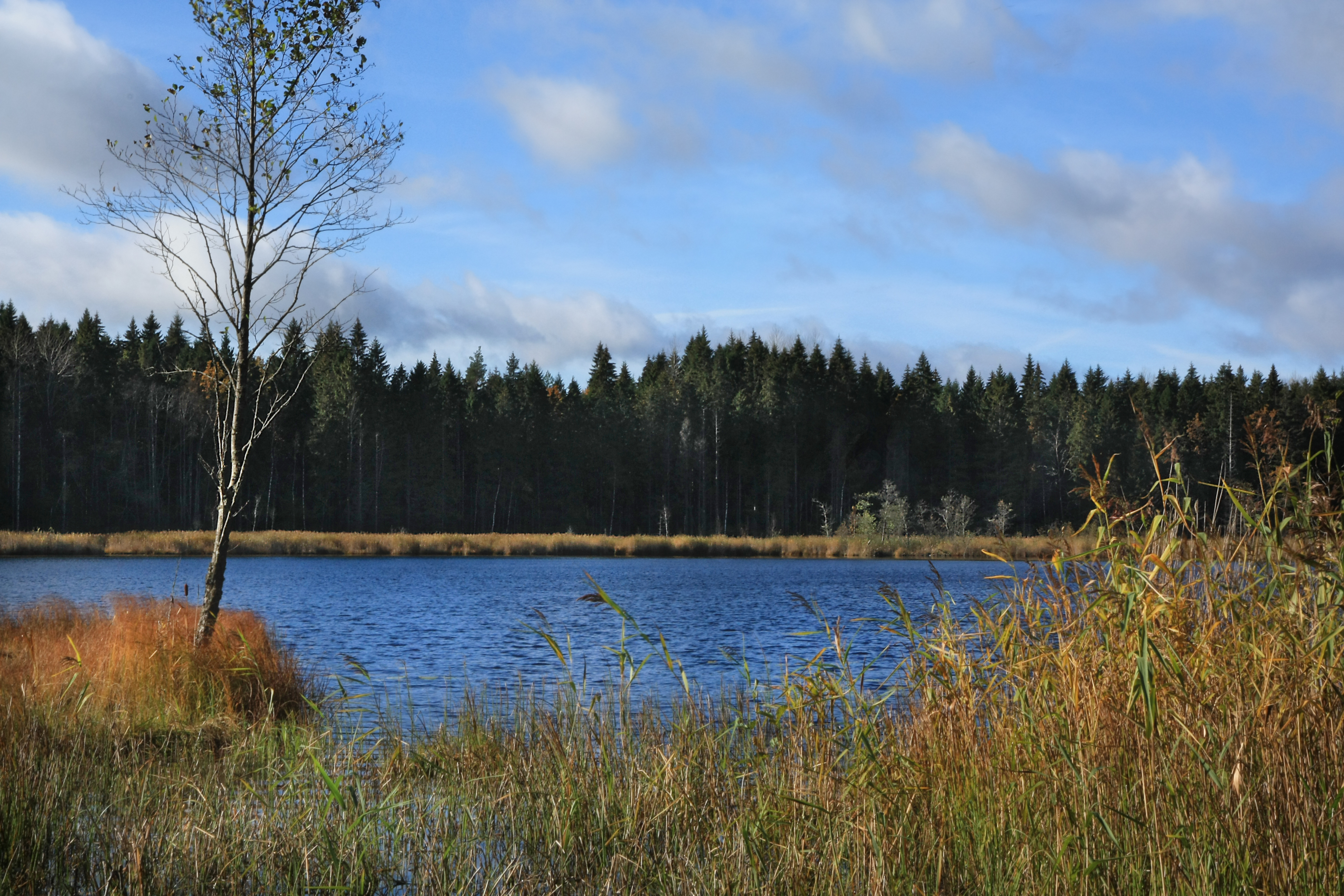 Lake Hainjarv in southern Estonia